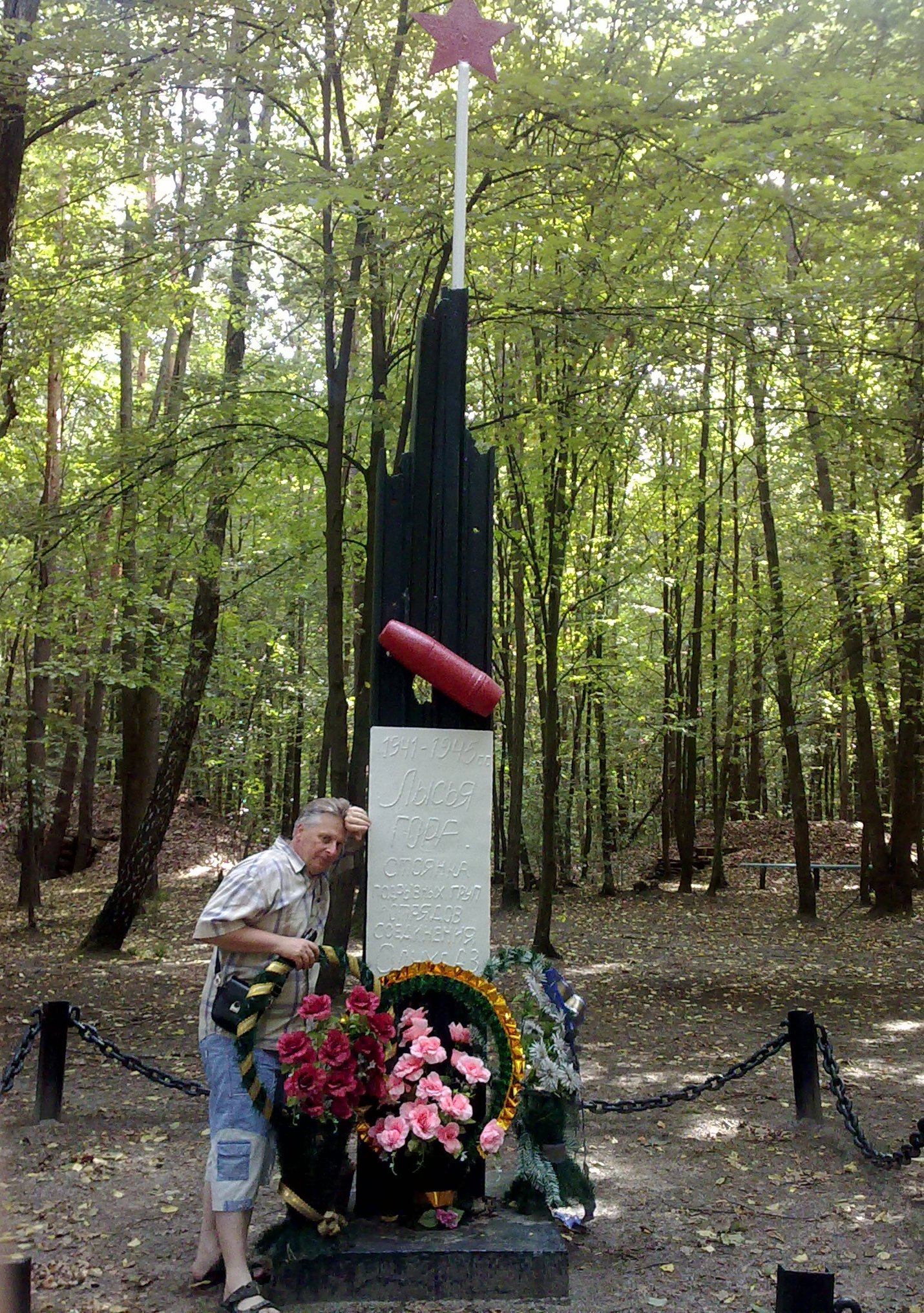 Петро Кралюк на місцях партизанської слави (Хмельницька обл.)